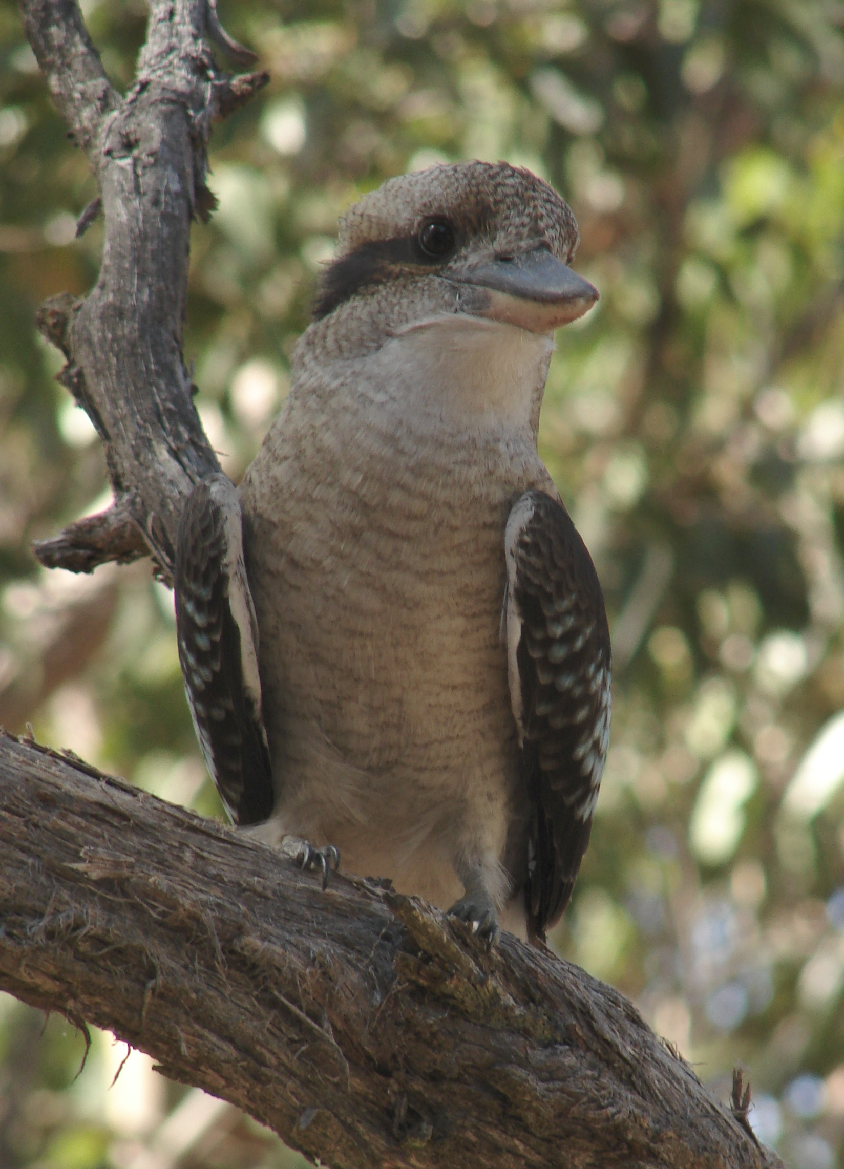 Kookaburra near Boroka Lookout, Grampians National Parl, Victoria, Australia